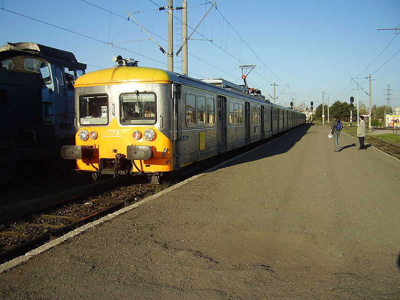 Automotrice 58 of CFR in Cluj-Napoca railway station